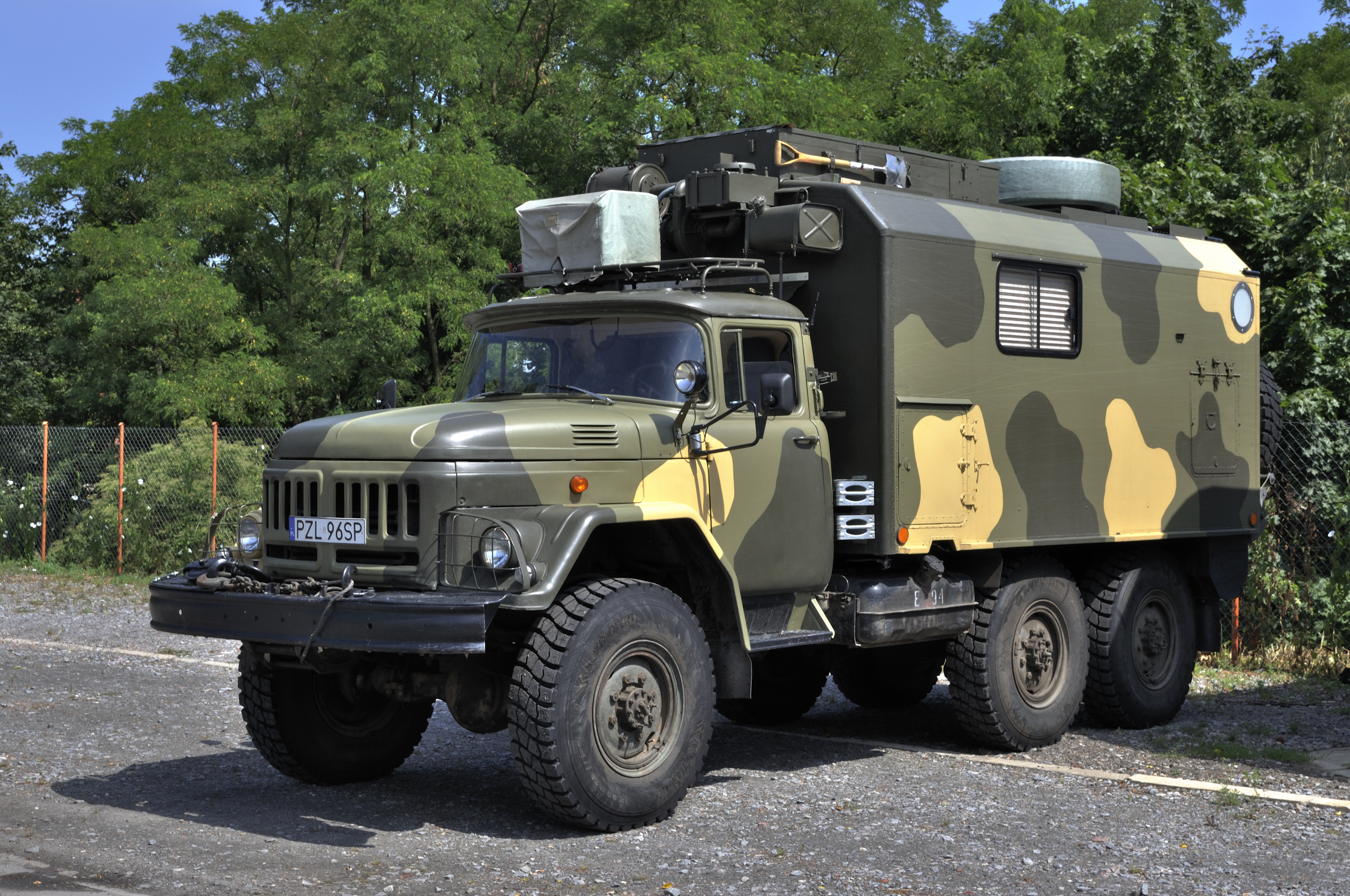 Picture taken in Malborg after Wikimania 2010 conference. ZIL 131 truck.